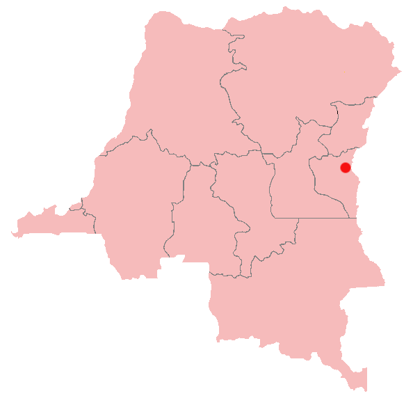 Bukavu, Democratic Republic of the Congo Location Map; created with the GIMP. Made by User:Acntx.